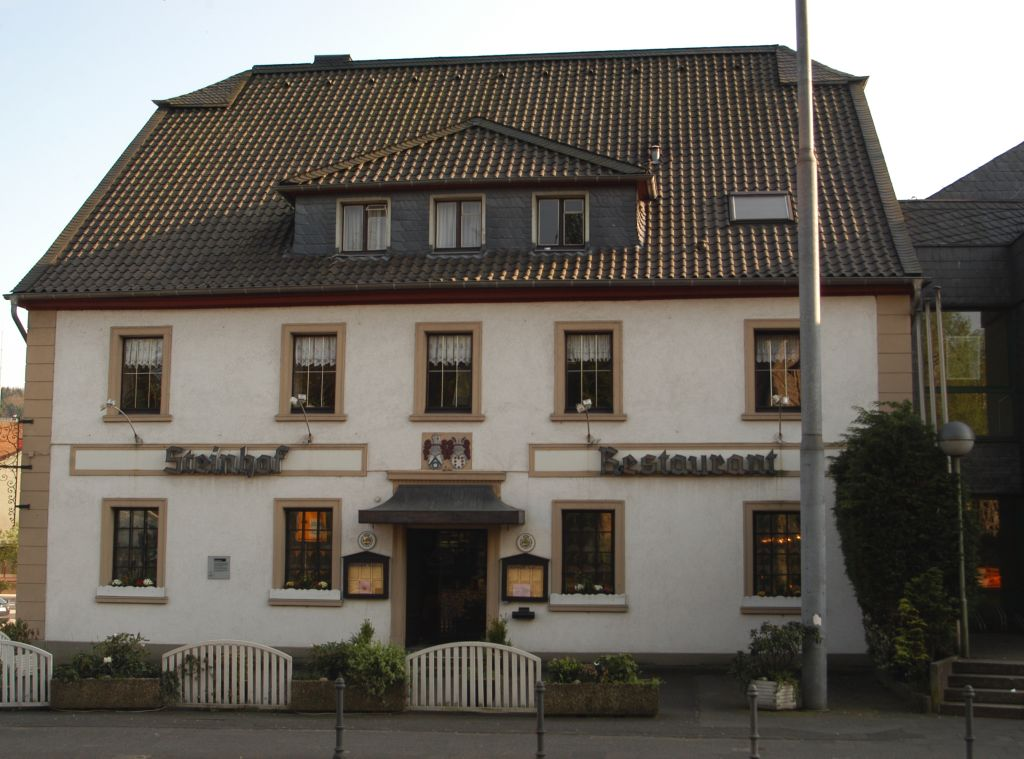 The Steinhof in Overath. This is a photograph of an architectural monument.